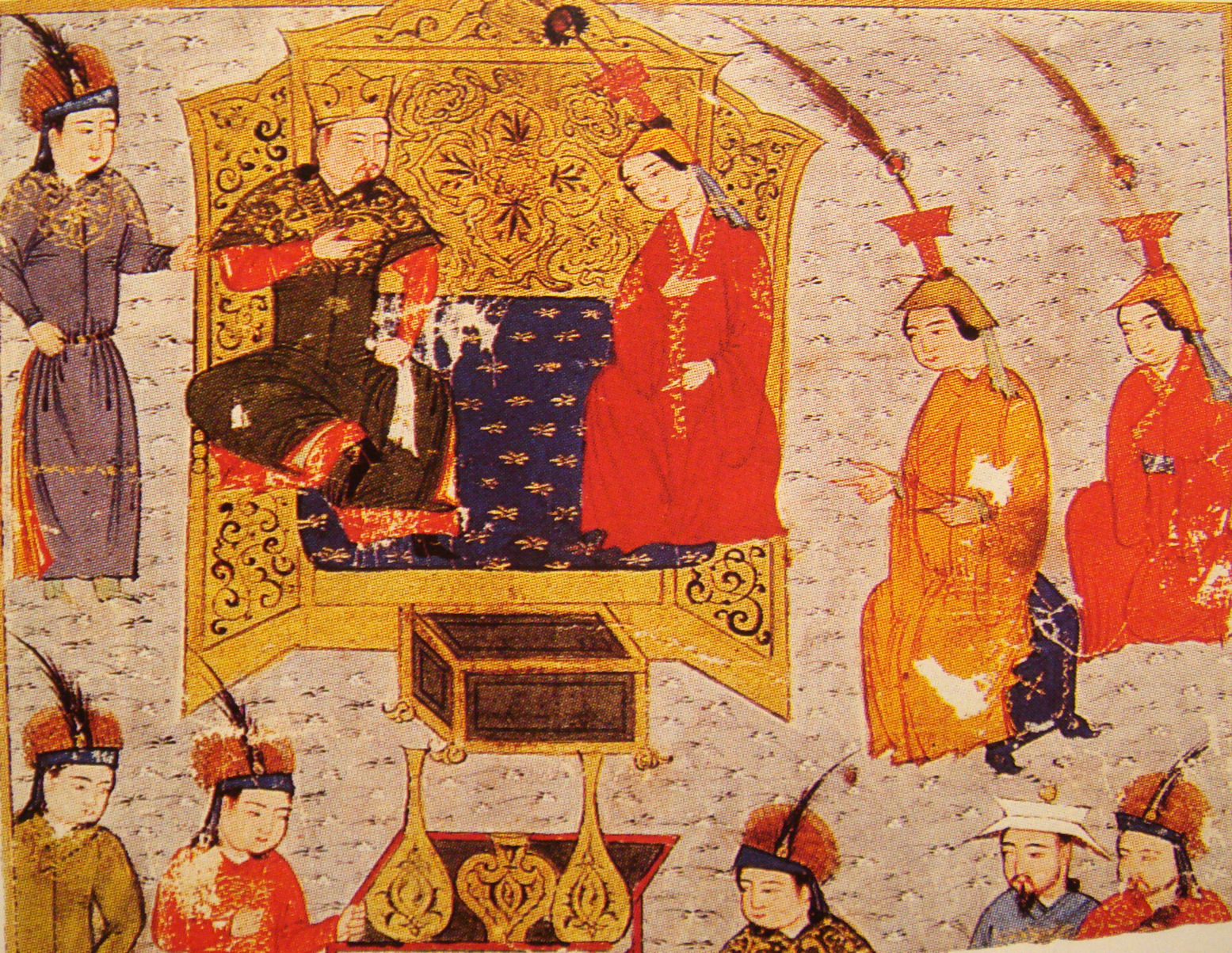 Tului With Queen Sorgaqtani